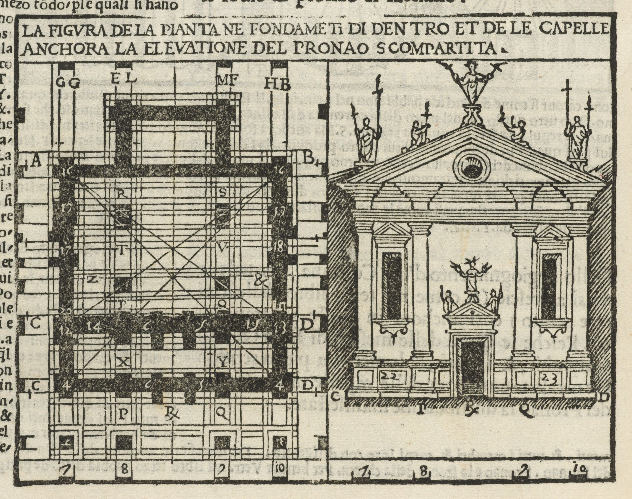 Page 96 from Architittura, Perugia: 1536, by Vitruvius Pollio. *OLC V834 Ei536, Houghton Library, Harvard University